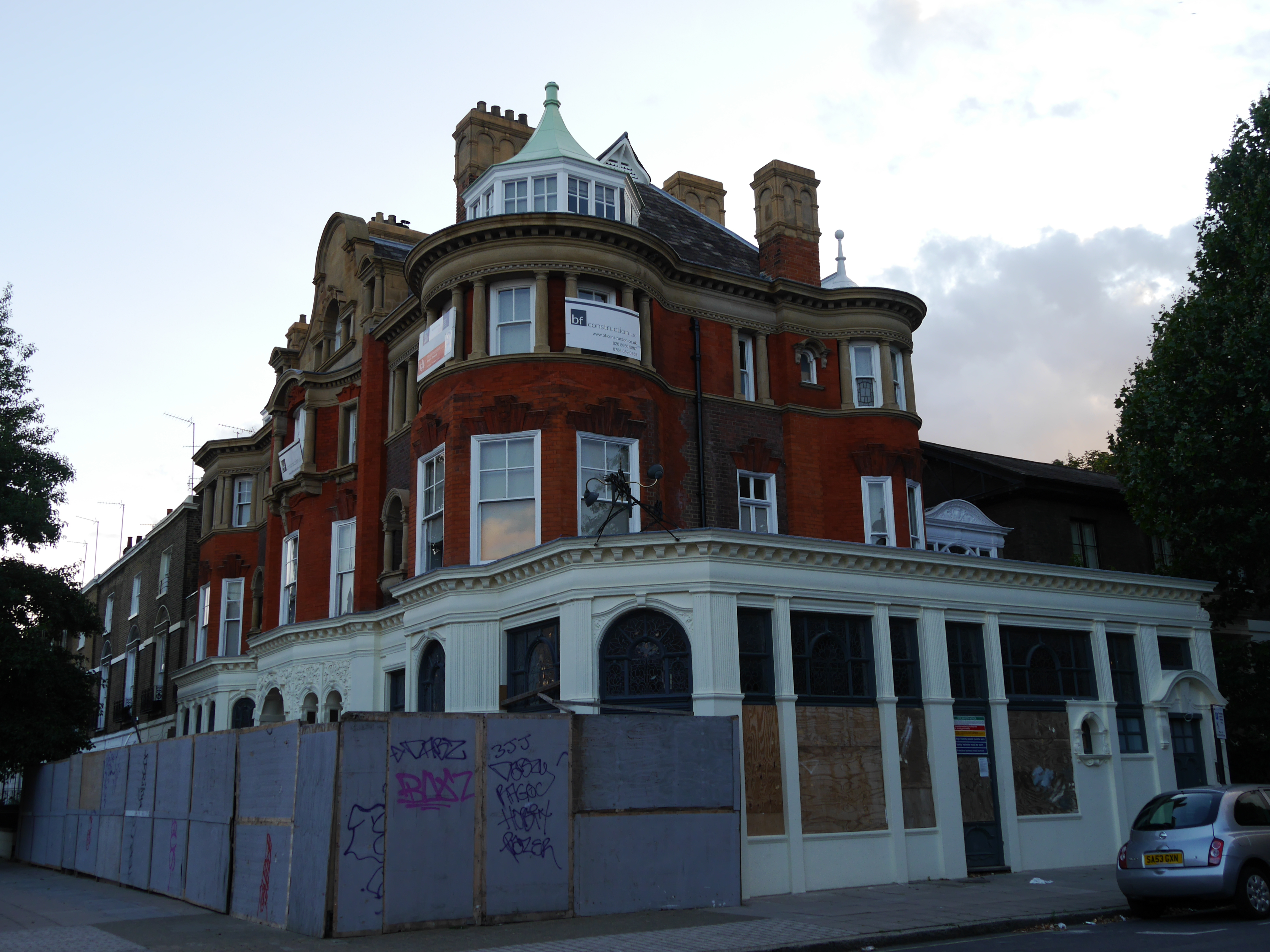 Crocker's Folly, Aberdeen Place, London